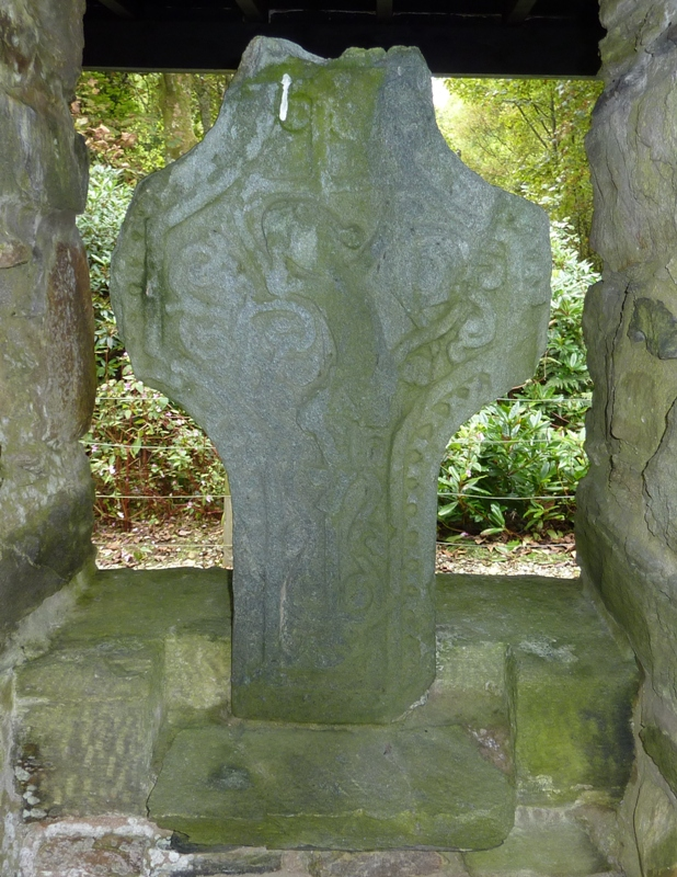 Kilberry Sculptured Stones, Kilberry, Argyll and Bute, Scotland. Cross head.